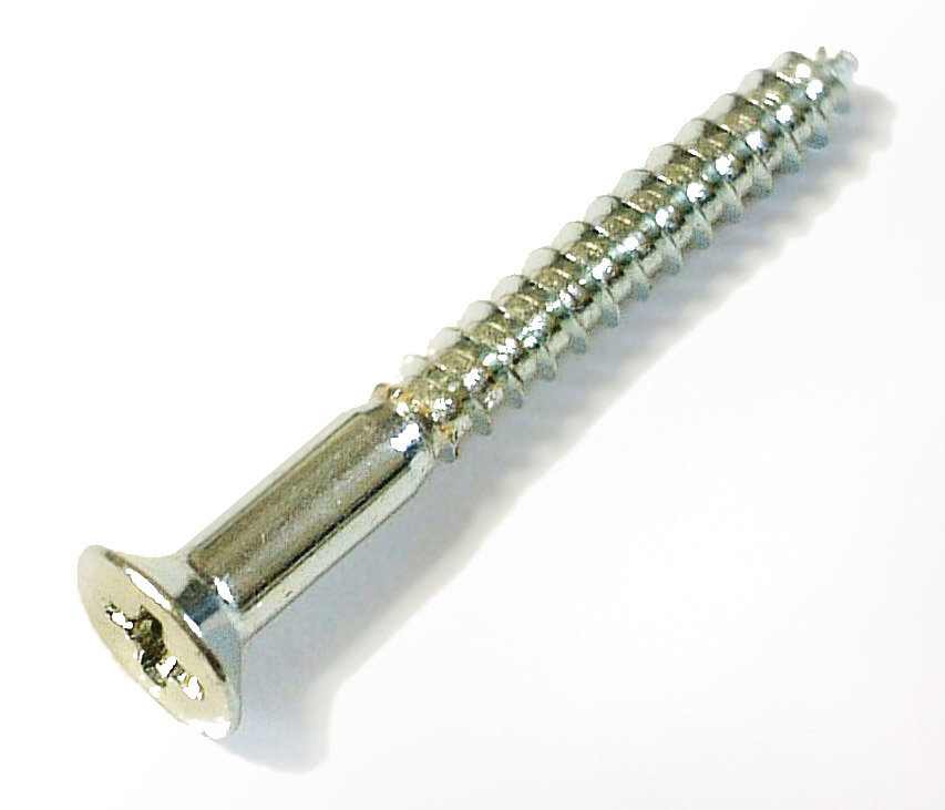 screw for wood. Photo taken in Japan.